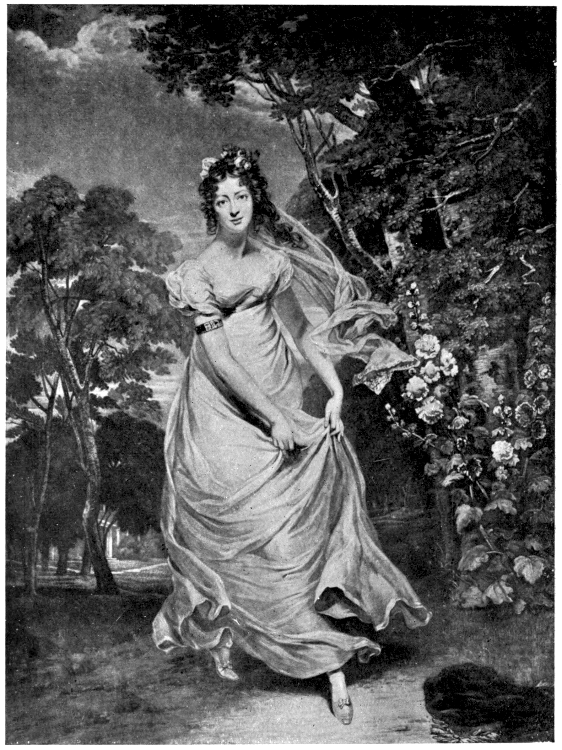 An image from a book, the removed caption is "G. Clint, A.R.A., pinxt. Thos. Lupton. sculpt. MARIA FOOTE, AFTERWARDS COUNTESS OF HARRINGTON, AS MARIA DARLINGTON IN THE FARCE OF "A ROWLAND FOR AN OLIVER" (1824)